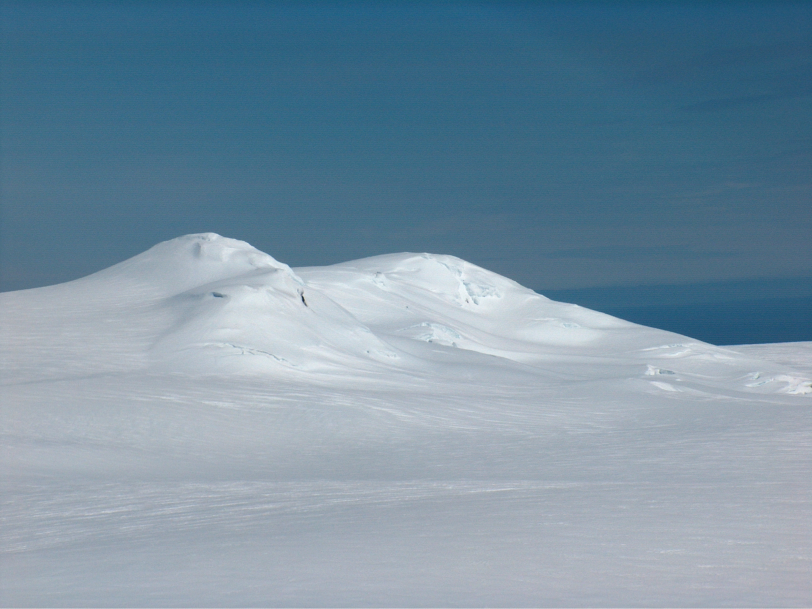 Gleaner Heights from Zemen Knoll in Vidin Heights on Livingston Island in the South Shetland Islands, Antarctica.